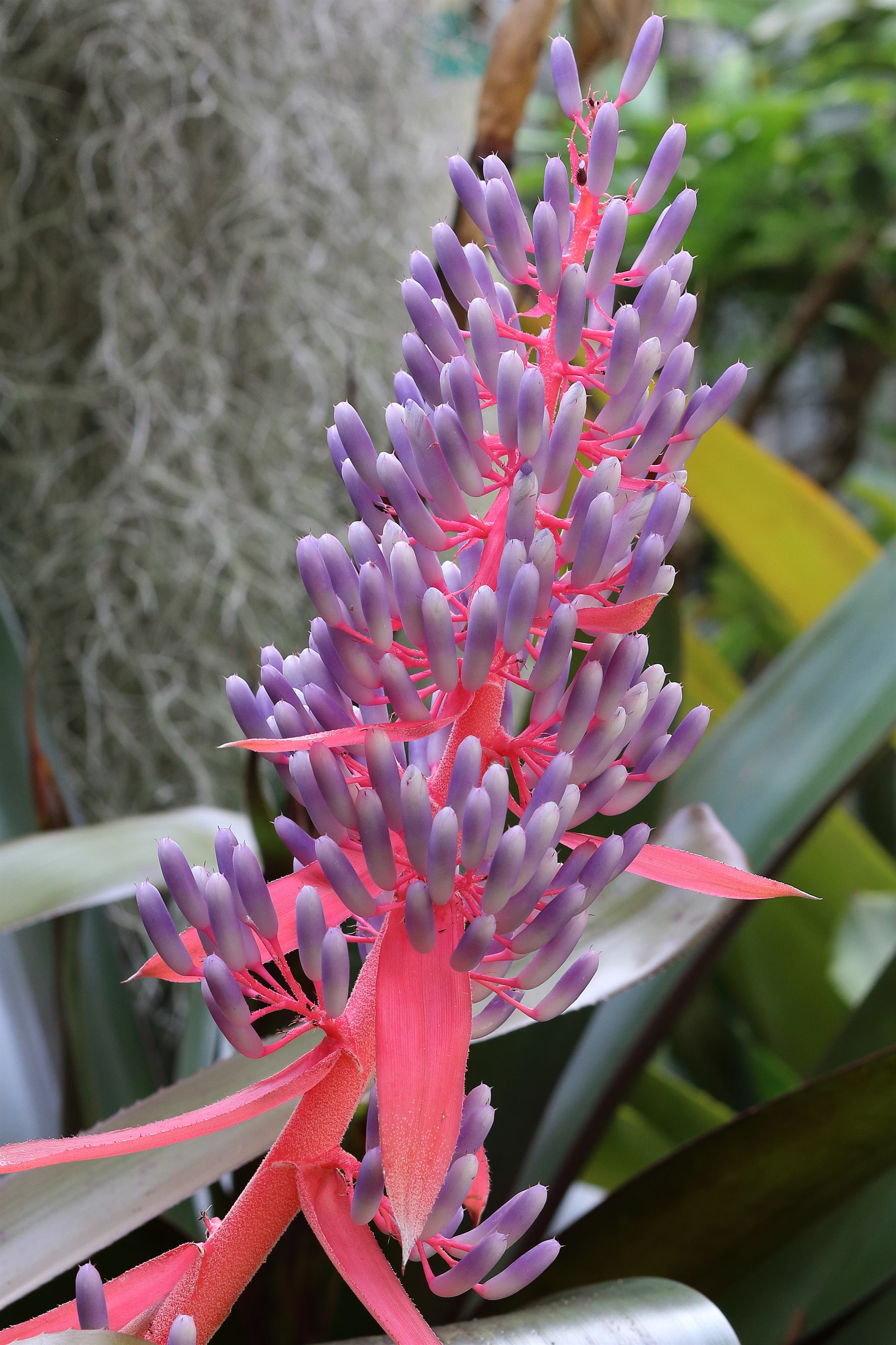 Inflorescence of Portea alatisepala